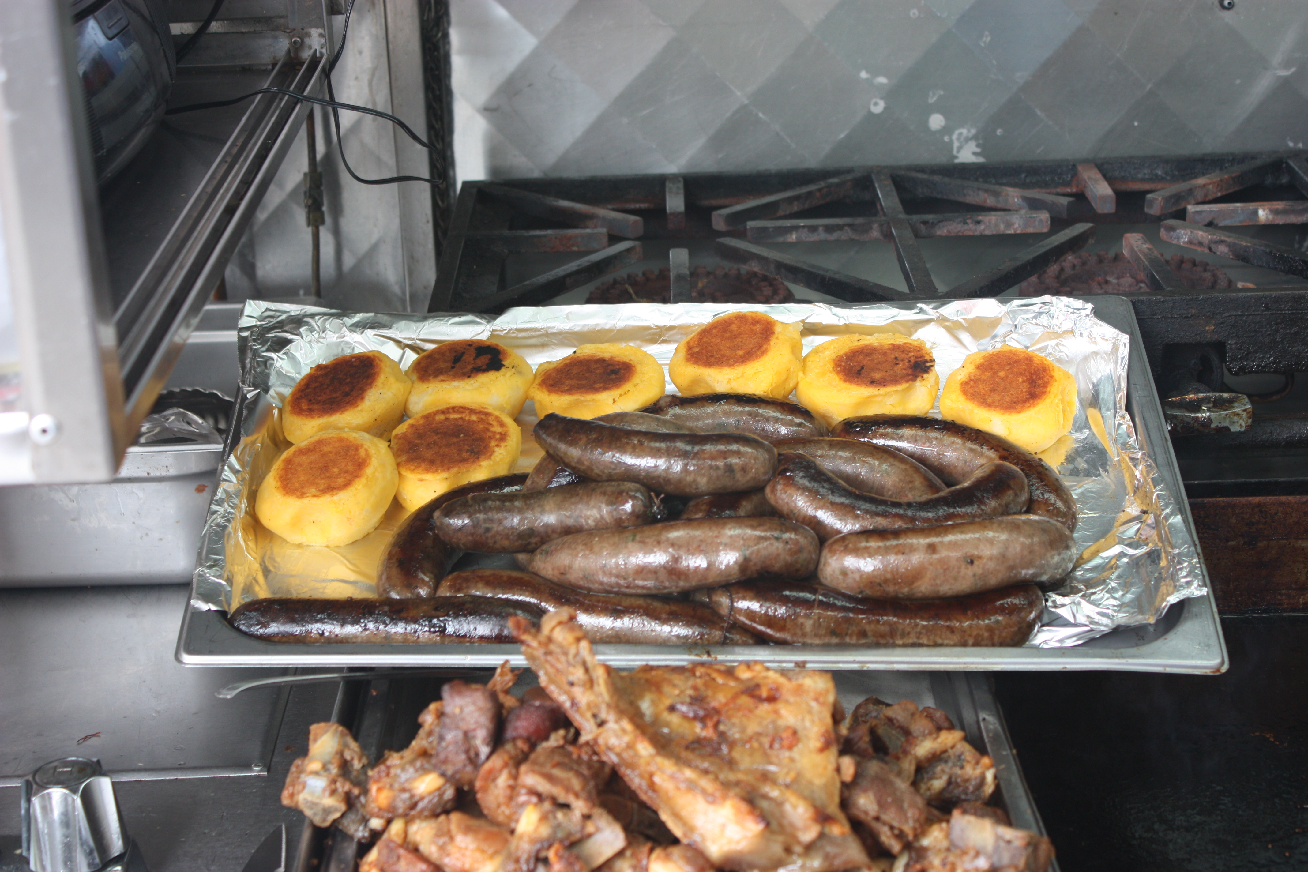 Llapingachos and chorizos, Roosevelt Avenue